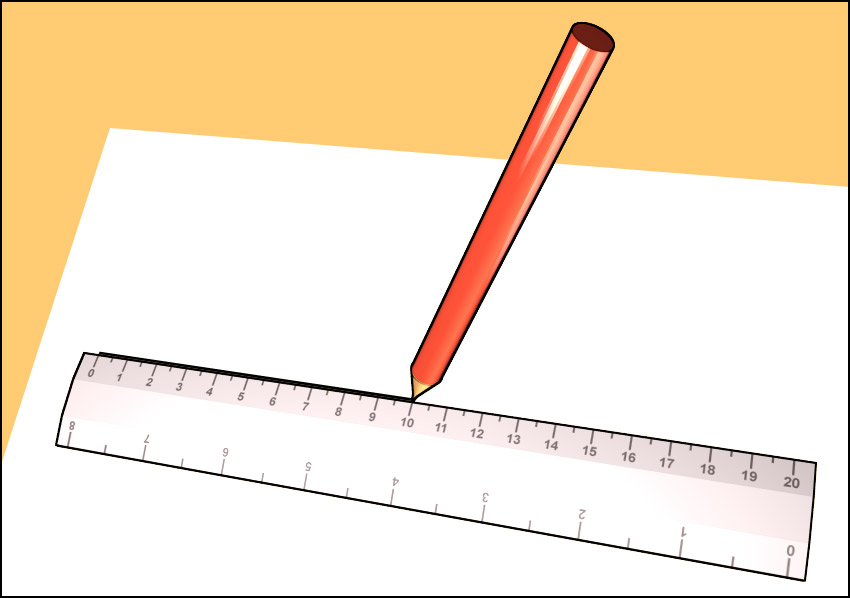 Geom draw line